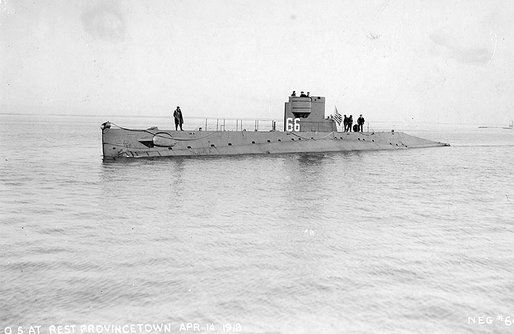 USS O-5 (Submarine # 66) off Provincetown, Massachusetts, on 14 April 1918, during her trials. Original caption: “Photo # NH 44551 USS O-5 off Provincetown, Massachusetts, during trials, 14 April 1918” — removed caption